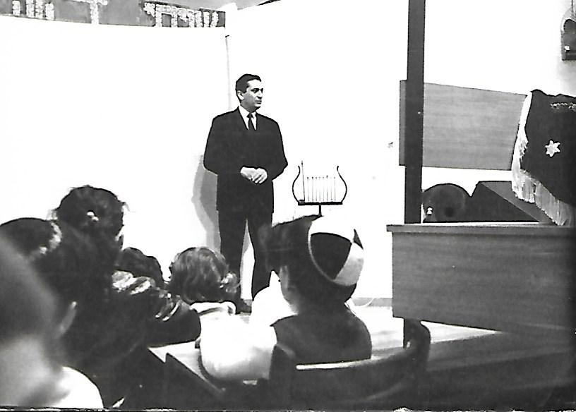 Ehud Avivi, representaive of the founders committee, greets the community at the opening ceremony of AL-ADATI Synagogue HaKipah and Beit Midrash Netivey-Am during Chanuka holiday 1973, in Beer-Sheva, Shechuna Hey Ledugma neighbourhood.